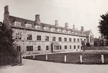 School House has been in continuous use as a School boarding house since 1860.